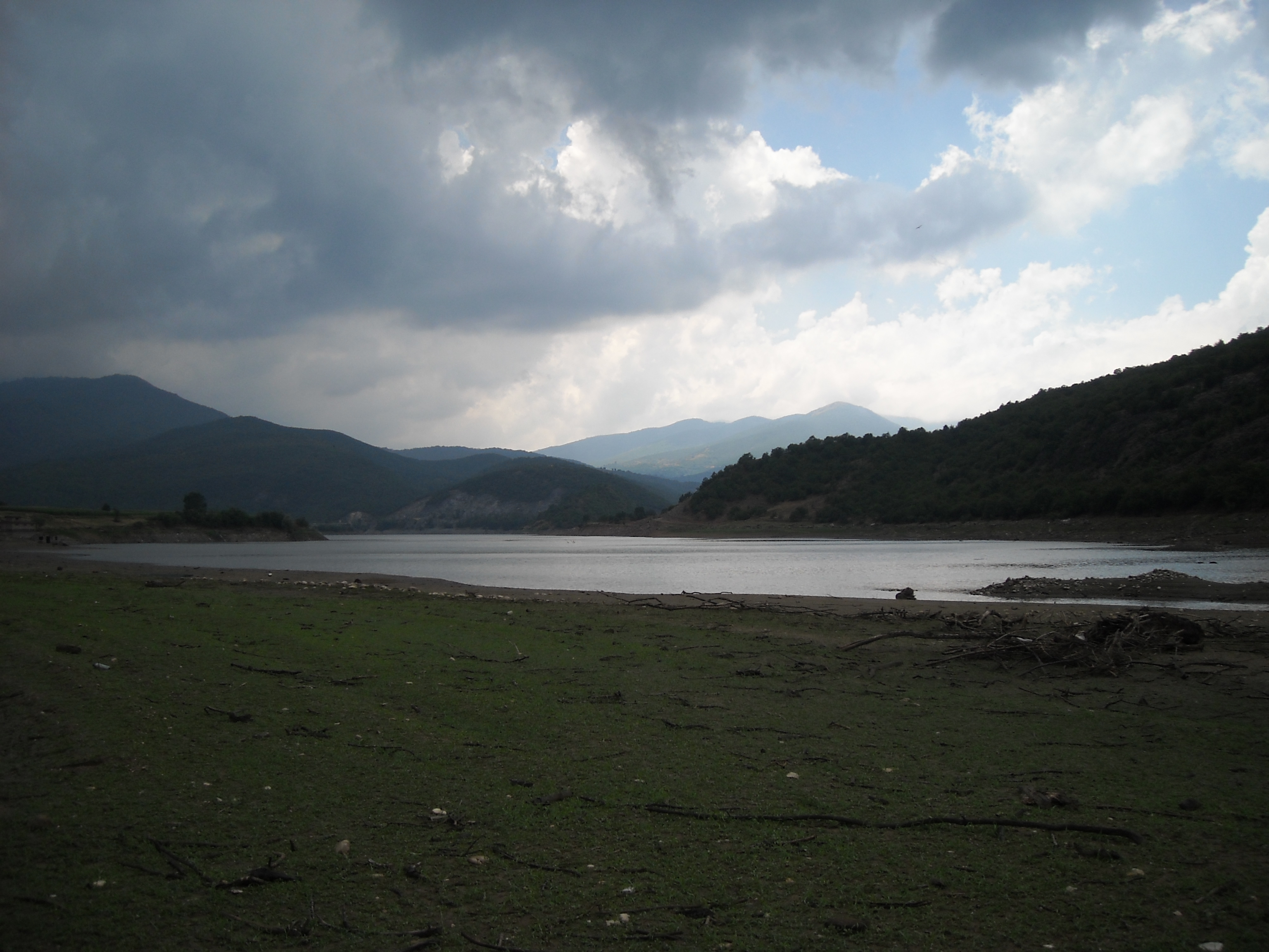 The mouth of the Dospat River.